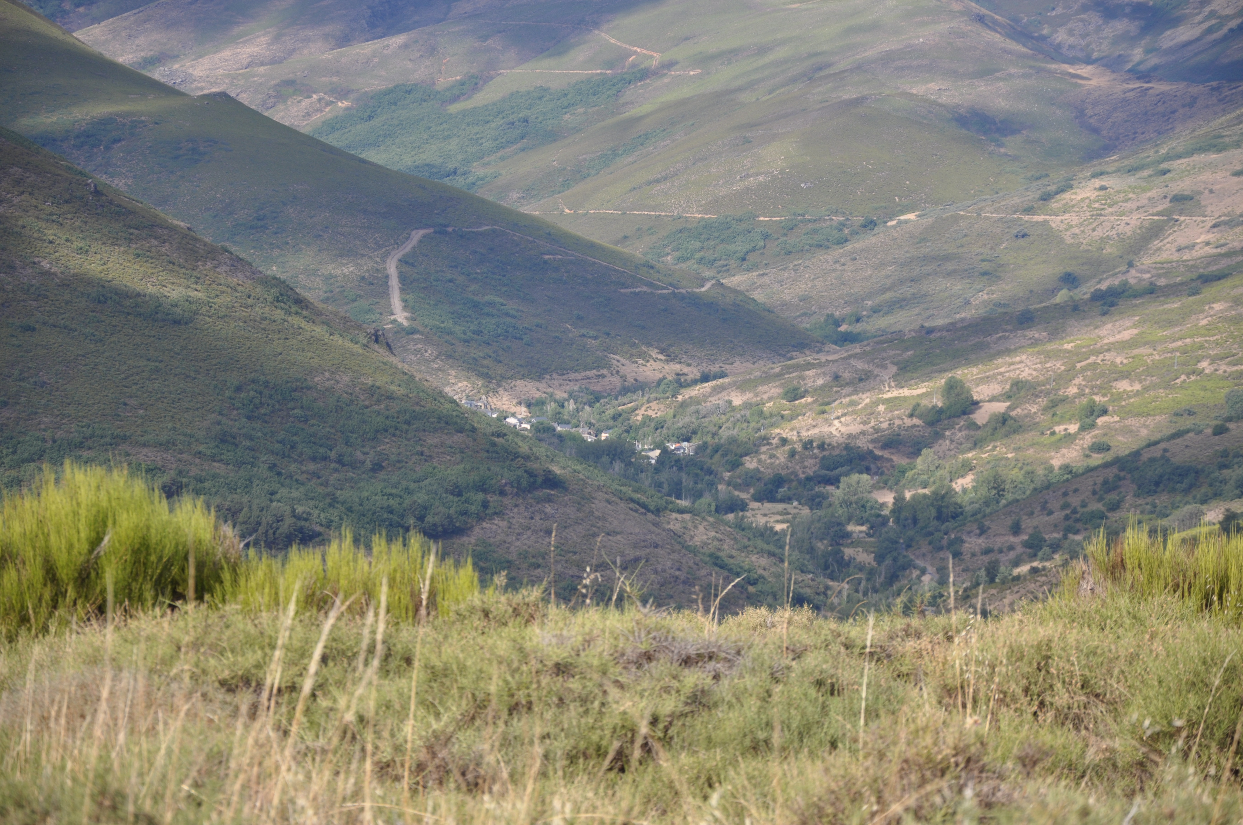 Region of La Cabrera, LE, Spain